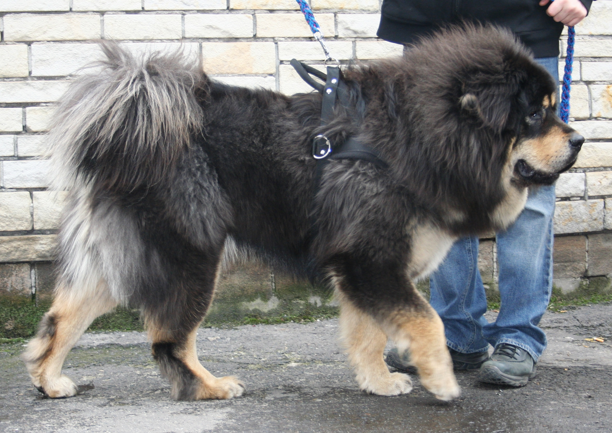 Tibetan Mastiff - dog during the international dogs show in Katowice, Poland. His name is Bagmati KHYI FADO which is called Hando. The owner is Marcin Krasoń from Poland.